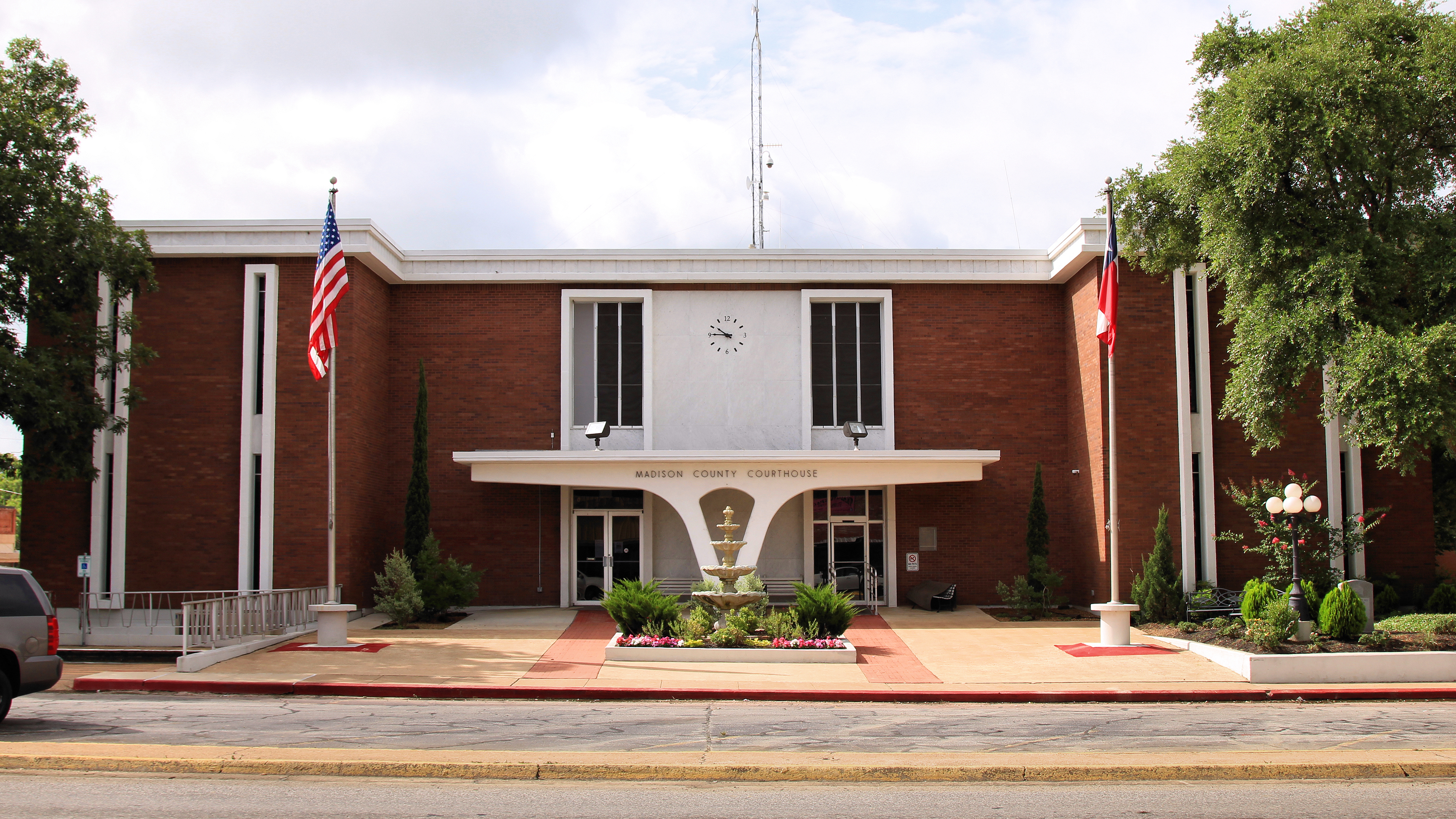 The Madison County Courthouse in Madisonville, Texas, United States was built in 1969.